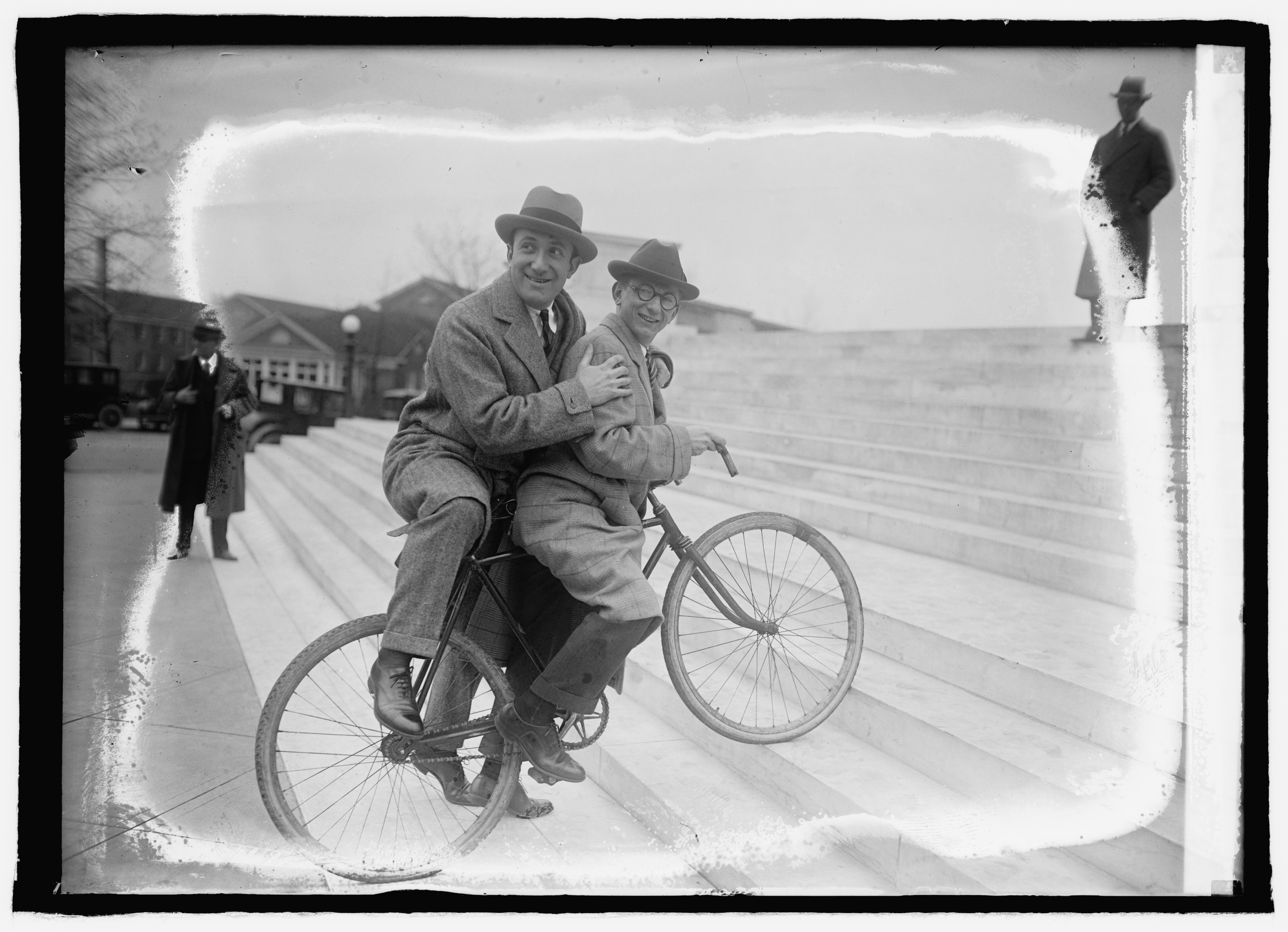 Title: Con. Conrad & Irving Caesar, 4/17/24 Abstract/medium: 1 negative : glass ; 5 x 7 in. or smaller